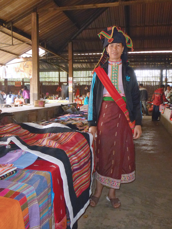 The morning market in Muang Sing, Luang Namtha Province, Laos. Woman of the Thai Dam or Black Thai ethnic group.